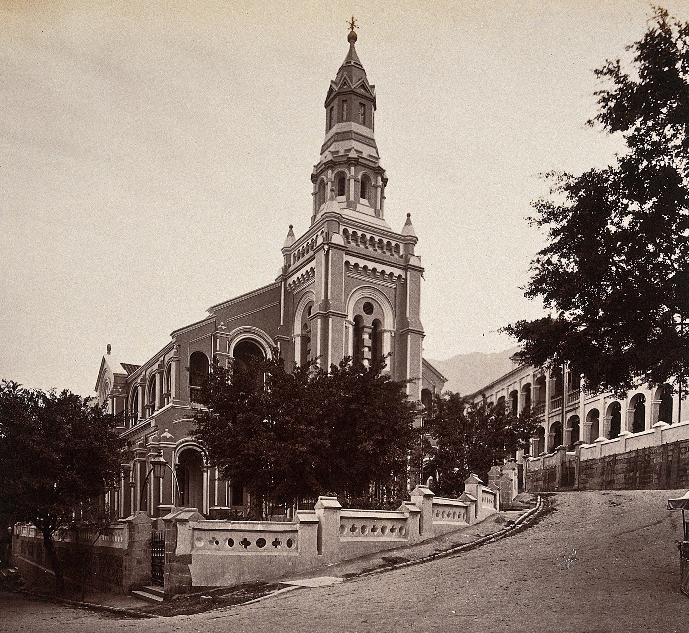 Hong Kong: the Union Chapel. Photograph. Hong Kong: the Union Chapel. Photograph. Iconographic Collections